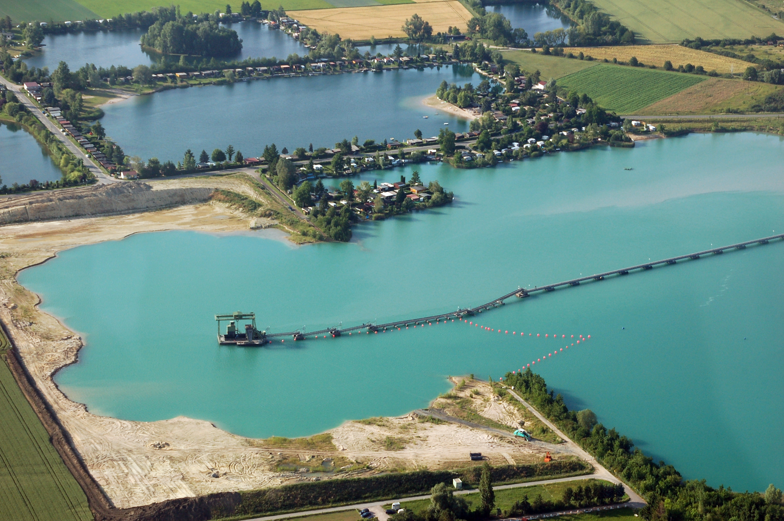 Aerial photograph of Geinsheim, Trebur, Hesse, Germany